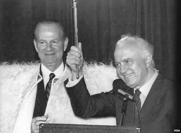 The U.S. Secretary of State James Baker meeting Georgia's Head of State Eduard Shevardnadze in Tbilisi, Georgia, in 1992. This was the U.S. Secretary of State's first ever visit to Georgia.